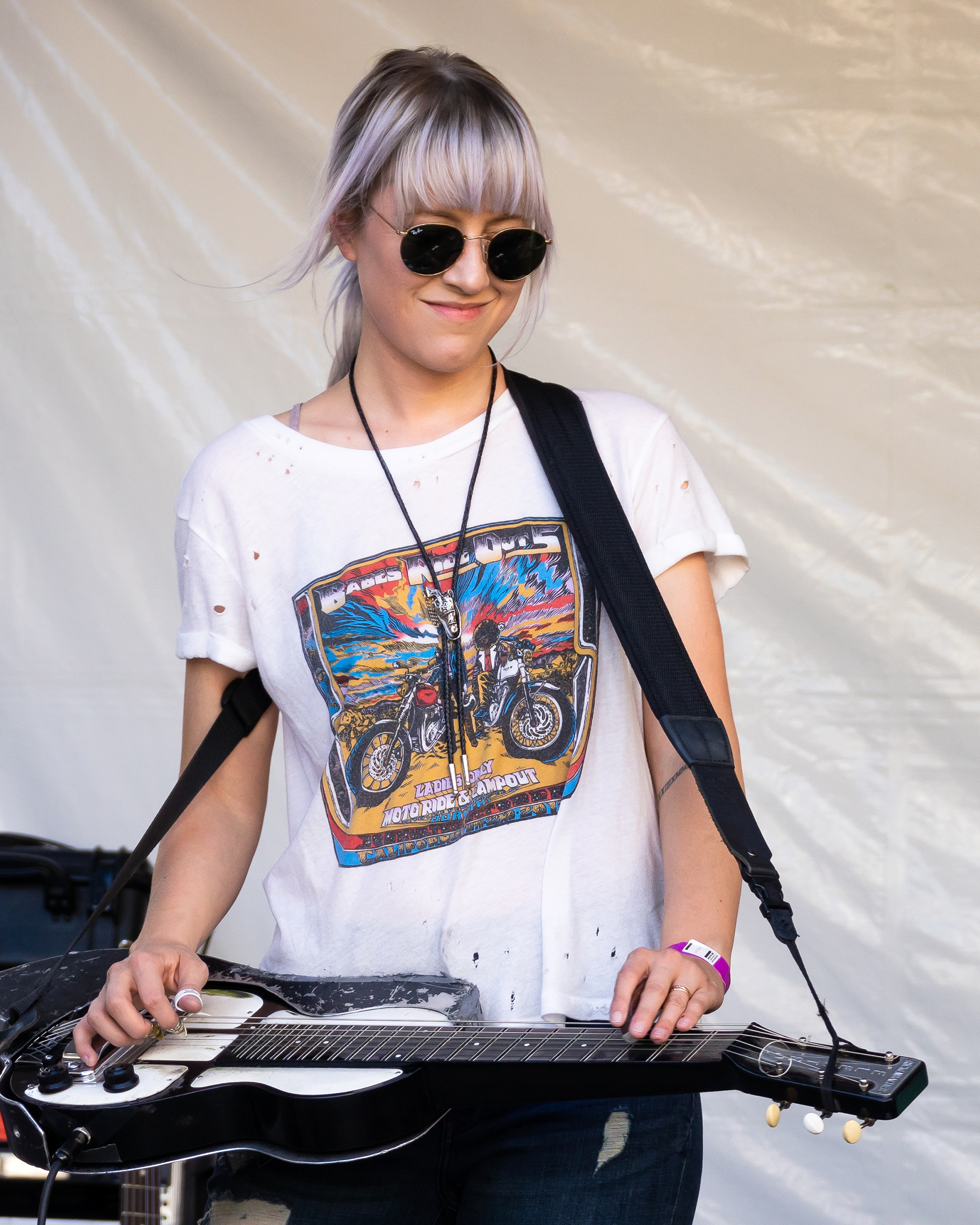 Larkin Poe performing live at Taste of South Lake Avenue in Pasadena, Los Angeles, California, on Saturday, September 29, 2018.